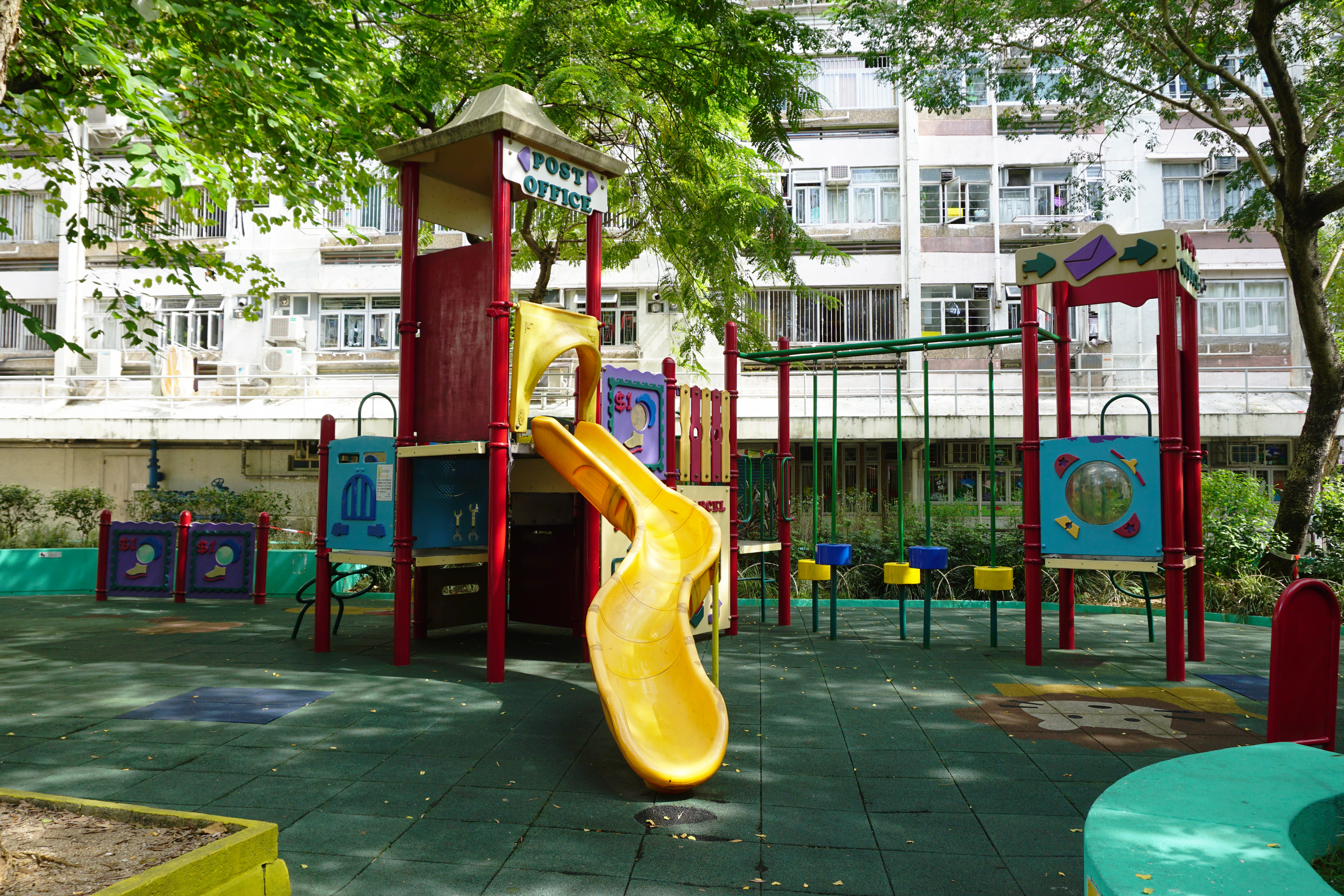 Cheung Wah Estate in Fanling, Hong Kong.